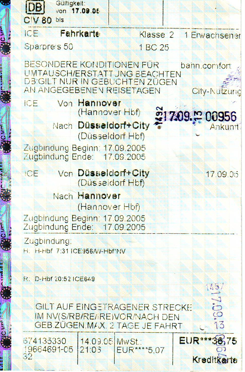 The ticket of Die Bahn. Sparpreis 50 with BC25.Hannover - Düsseldorf.